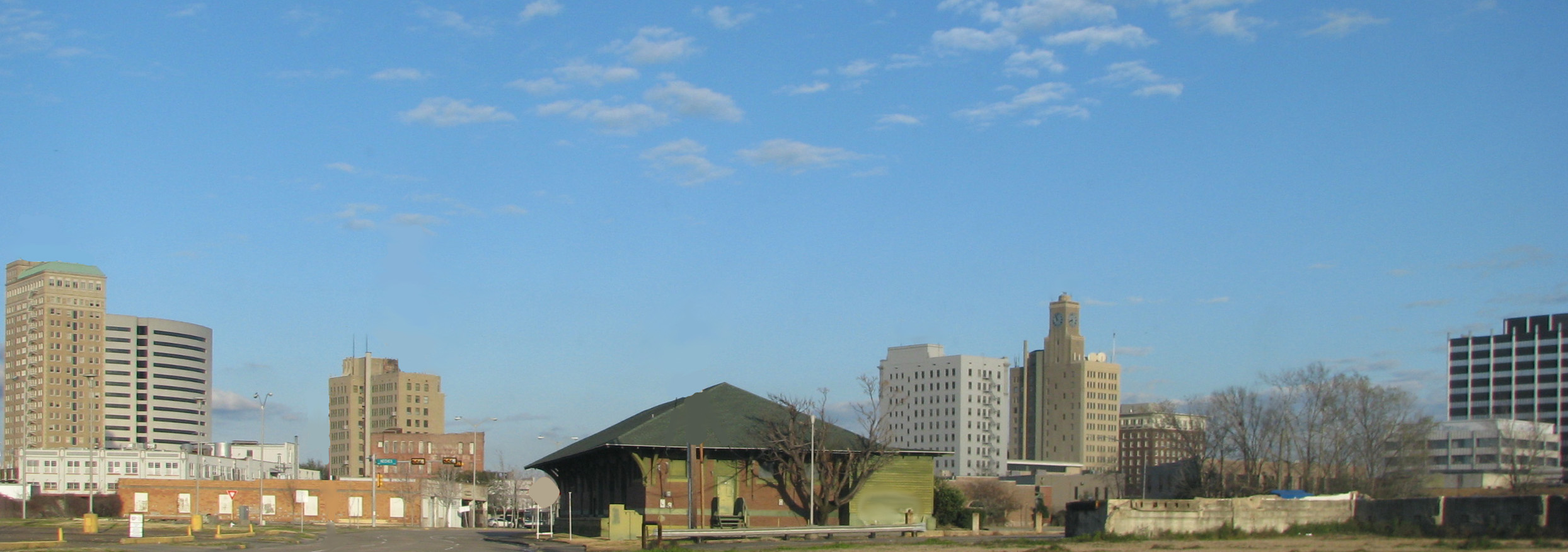 Downtown Beaumont's Highrises